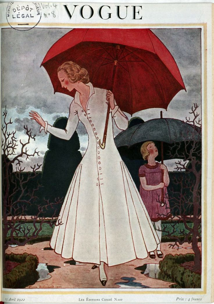 Front cover of Vogue magazine – April 1922